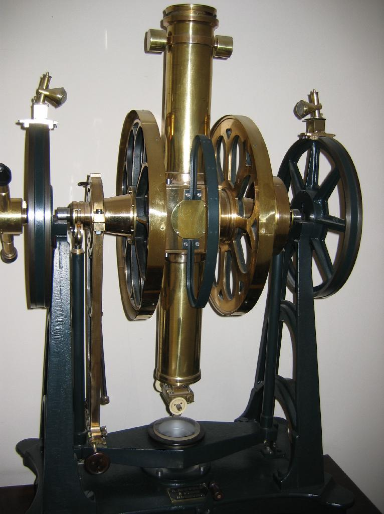 Meridian circle